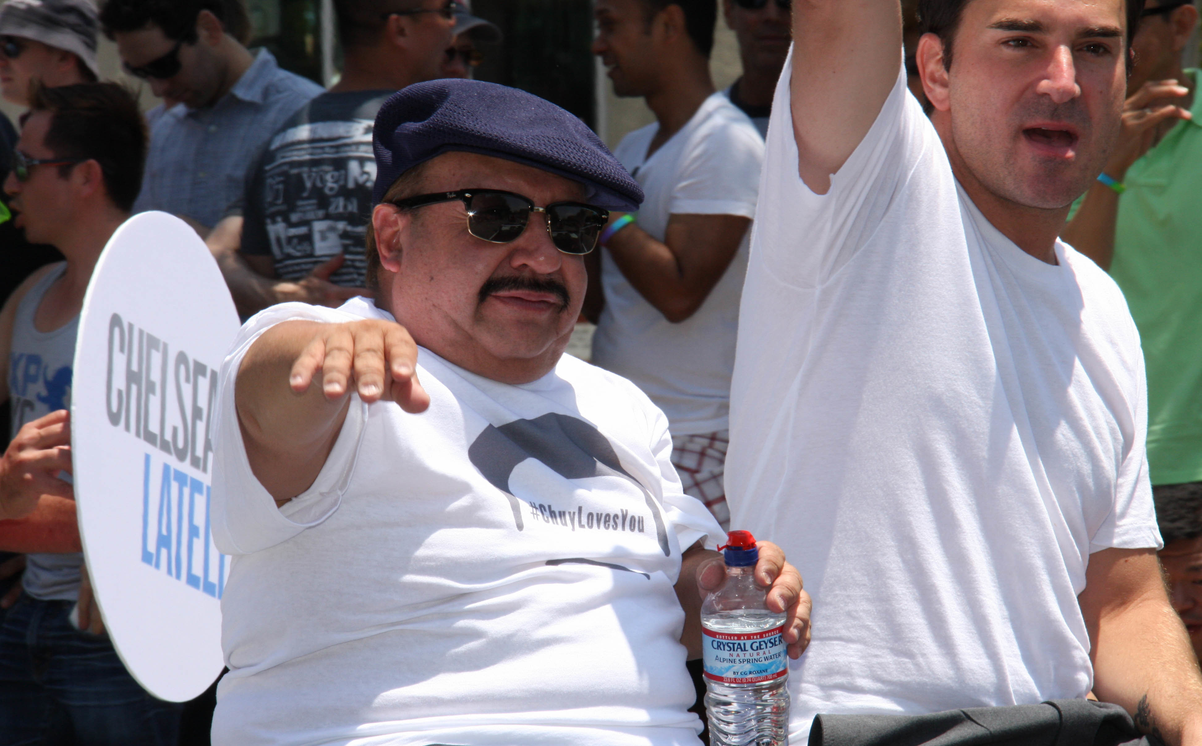 Bravo at West Hollywood Gay Pride Parade in 2013